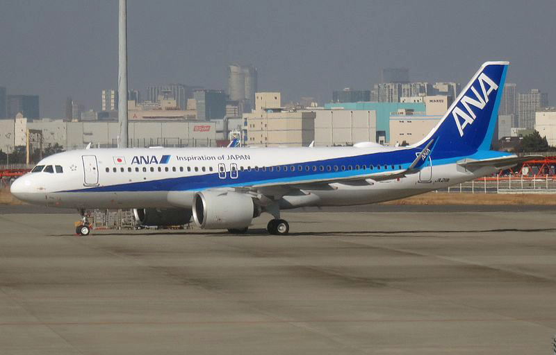 The first Airbus A320-271N for All Nippon Airways at Haneda Airport.